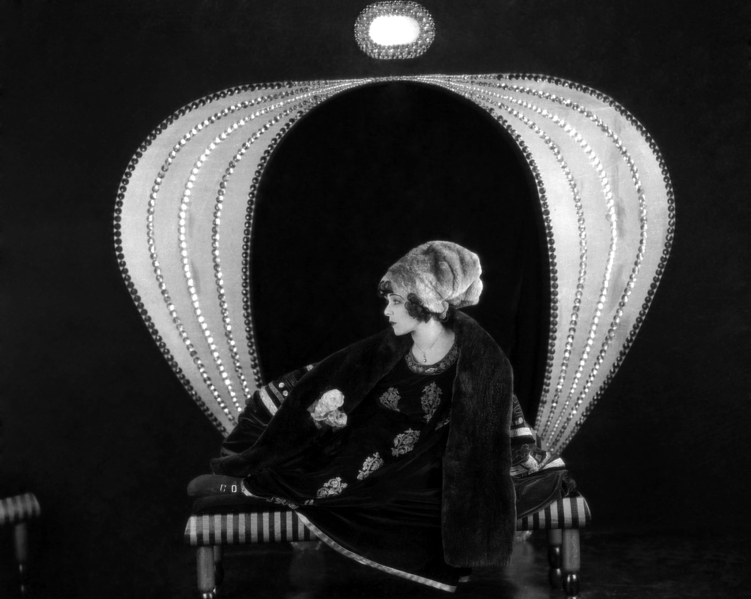 Alla Nazimova in a photo from the 1921 film "Camille".